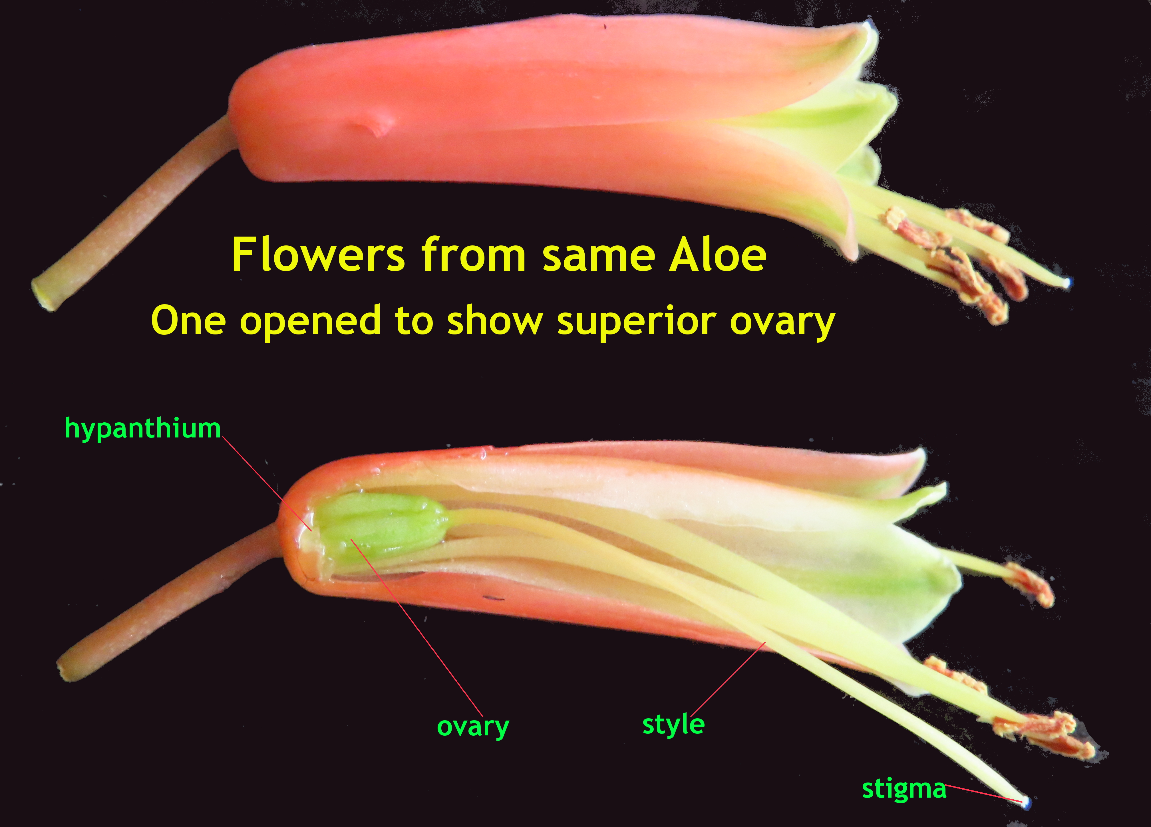 Superior ovary in Aloe